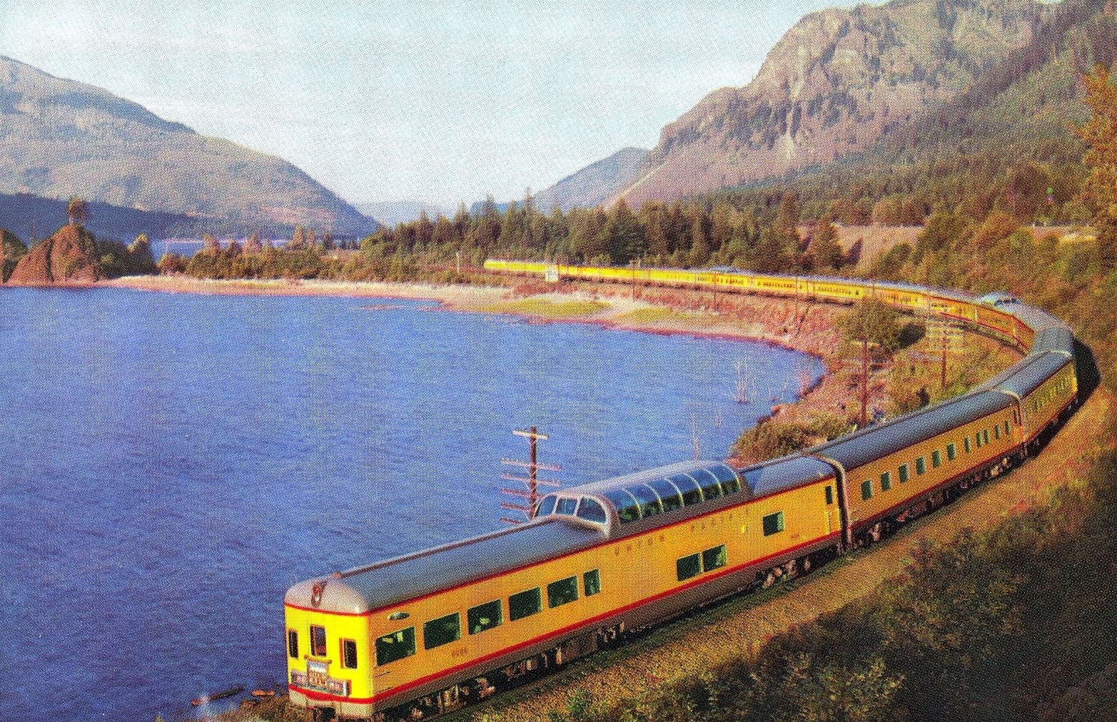 Postcard photo of the Union Pacific streamliner "City of Portland".